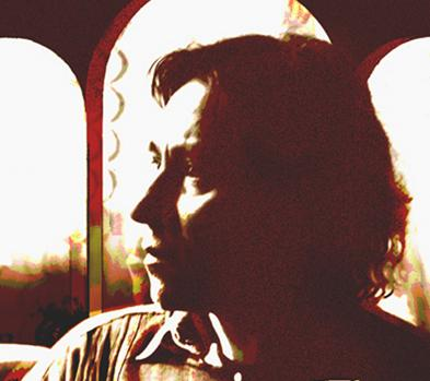 Mauricio García Vega portrait, in the 1980s.